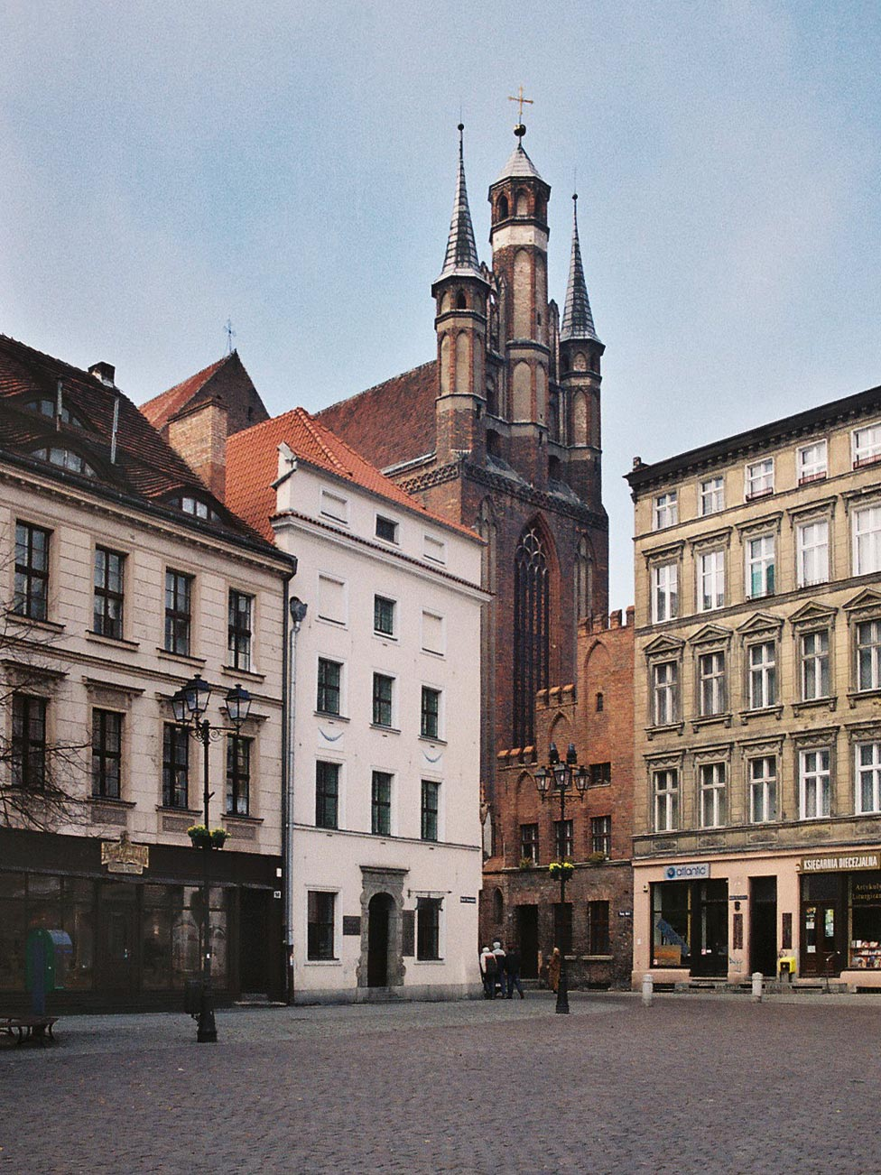 Toruń, St. Mary's church seen from Old Market Square.